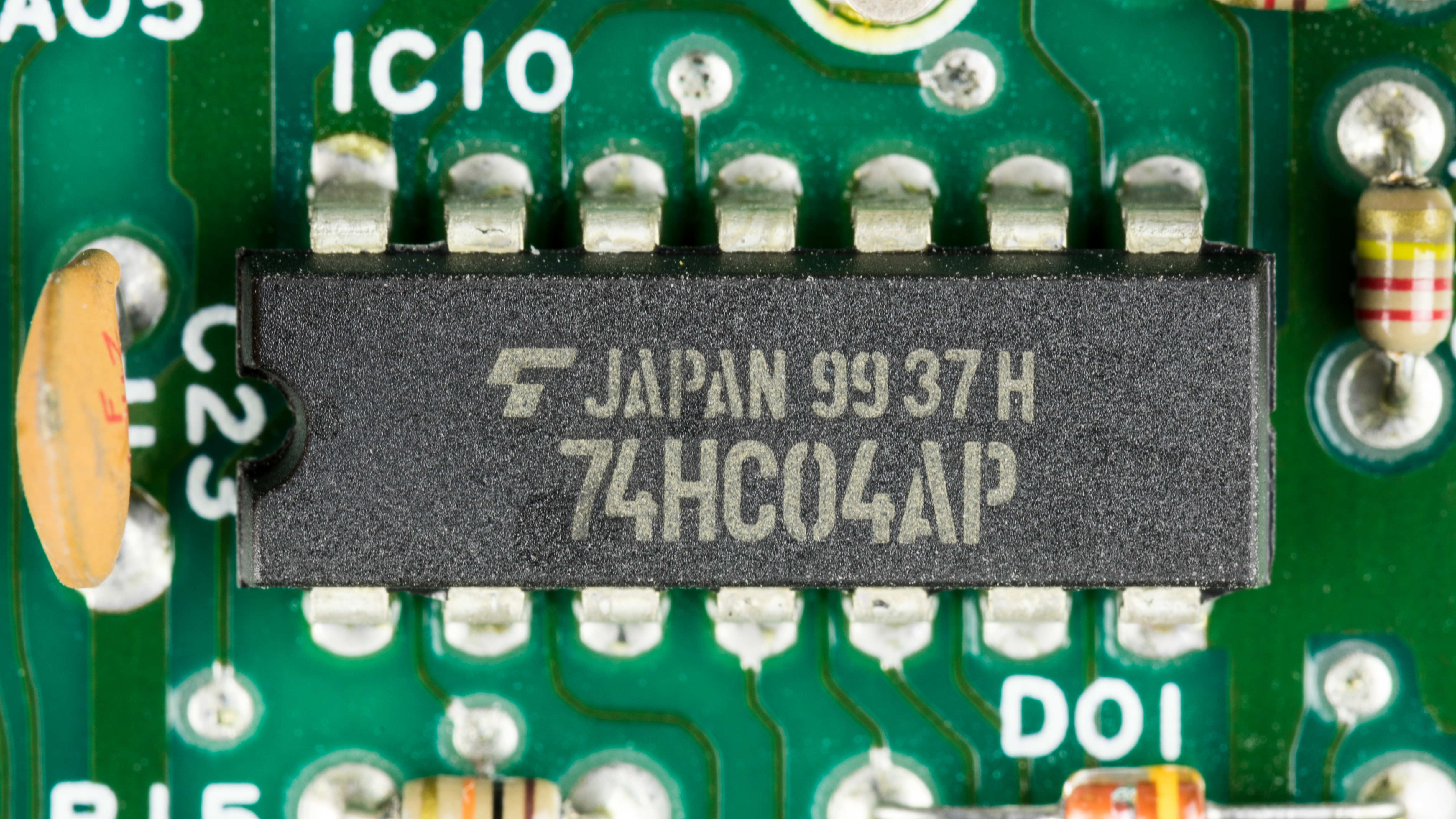 Nedap ESD1 - printer controller - Toshiba 74HC04AP - Hex Inverter